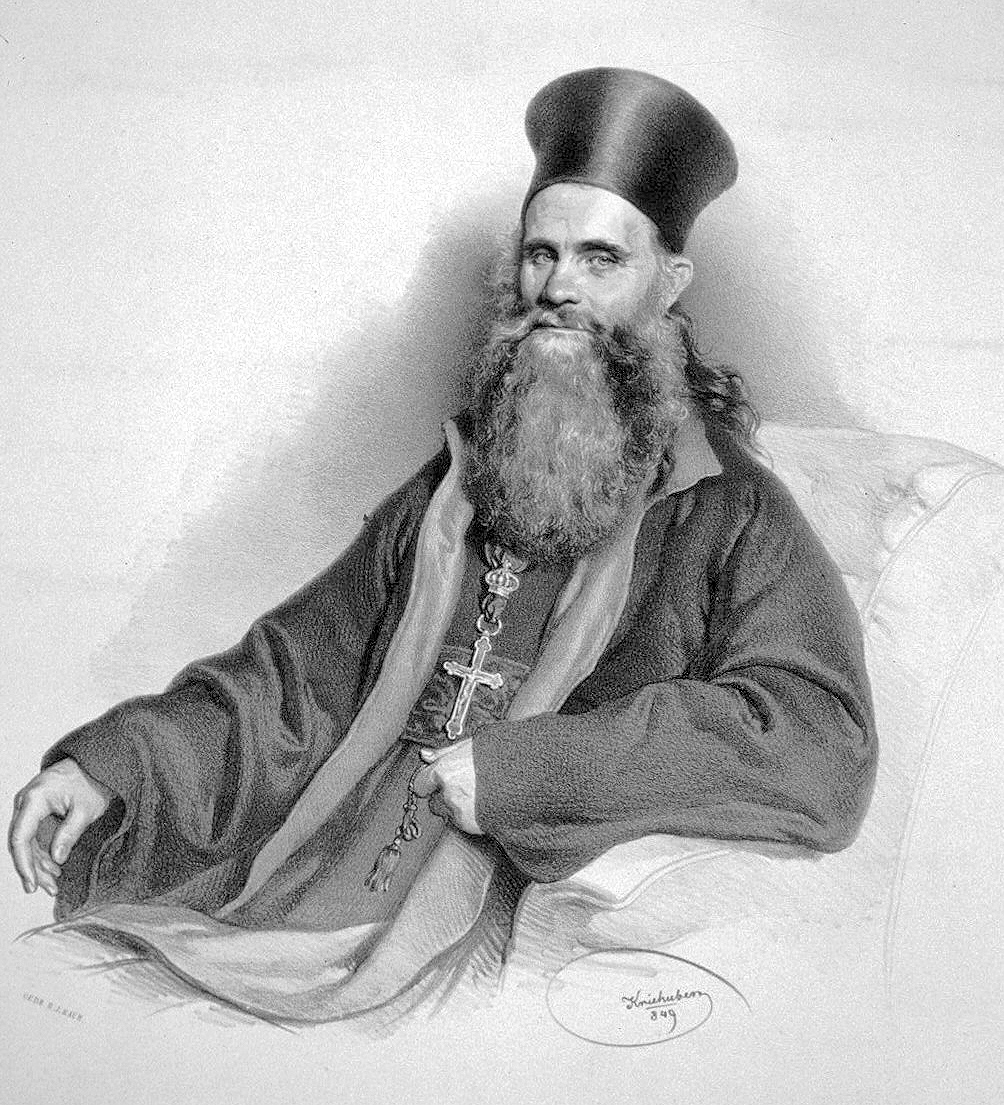 Eugen Hakman (1794-1873), Griechischer nicht-unierter Erzbischof und Metropolit von Czernowitz. Geheimrat, Mitglied des Herrenhauses und des Landtages der Bukowina.